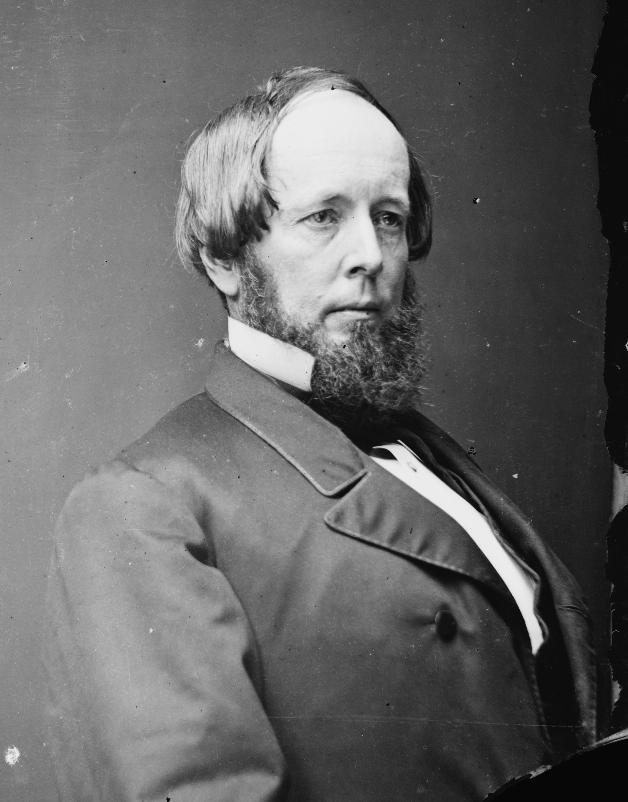 James Dixon. Library of Congress description: "Jas. Dixon".